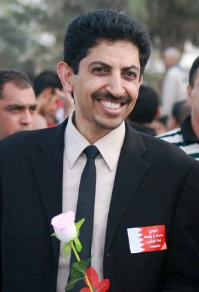 Abdulhadi Alkhawaja taking part in a pro-democracy march in February 2011